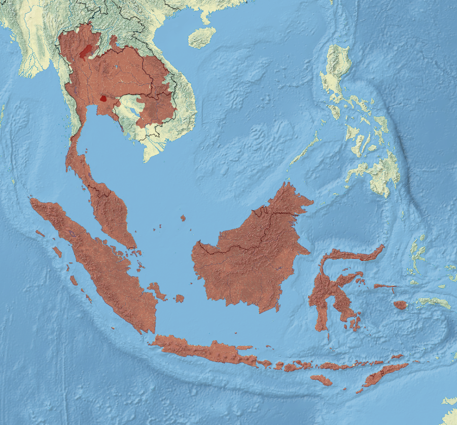 Distribution map of Clea helena.